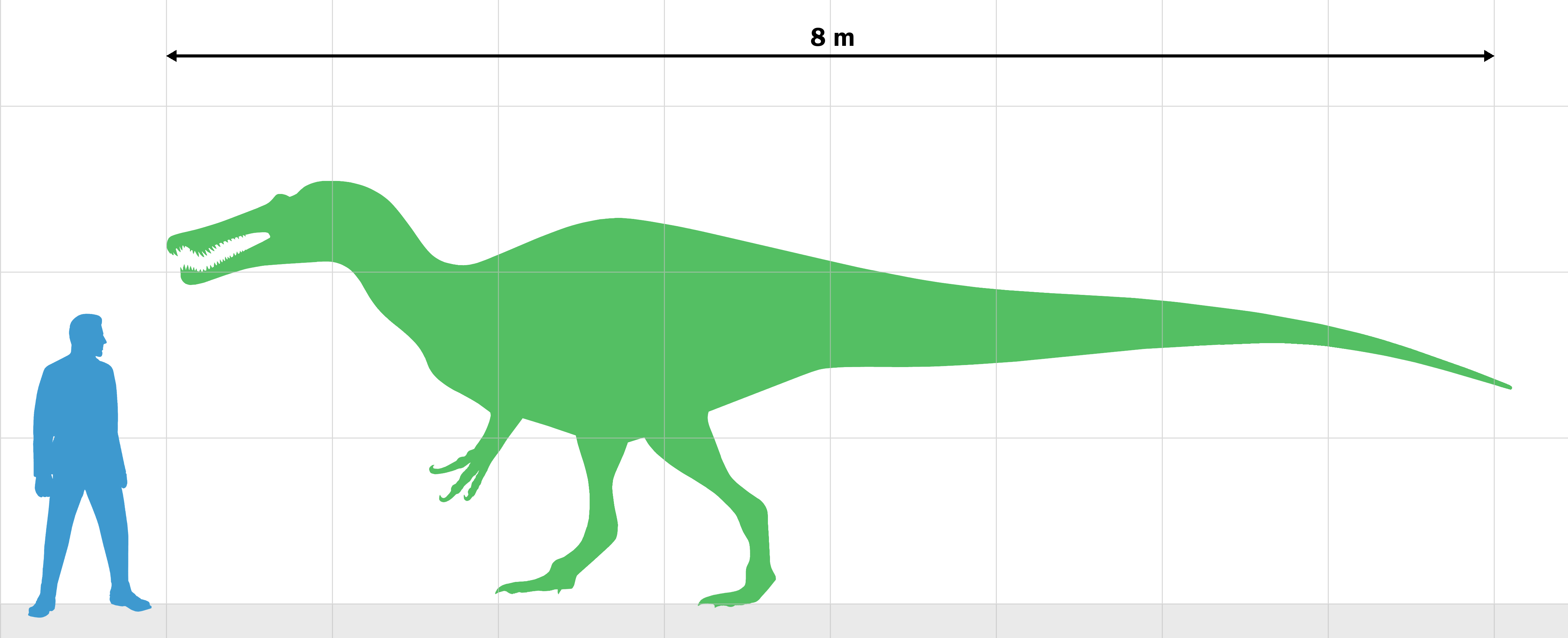 Estimated size of the holotype specimen of Baryonyx walkeri